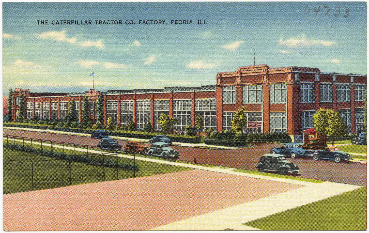 Note: This is probably the now-demolished main building at the East Peoria plant.